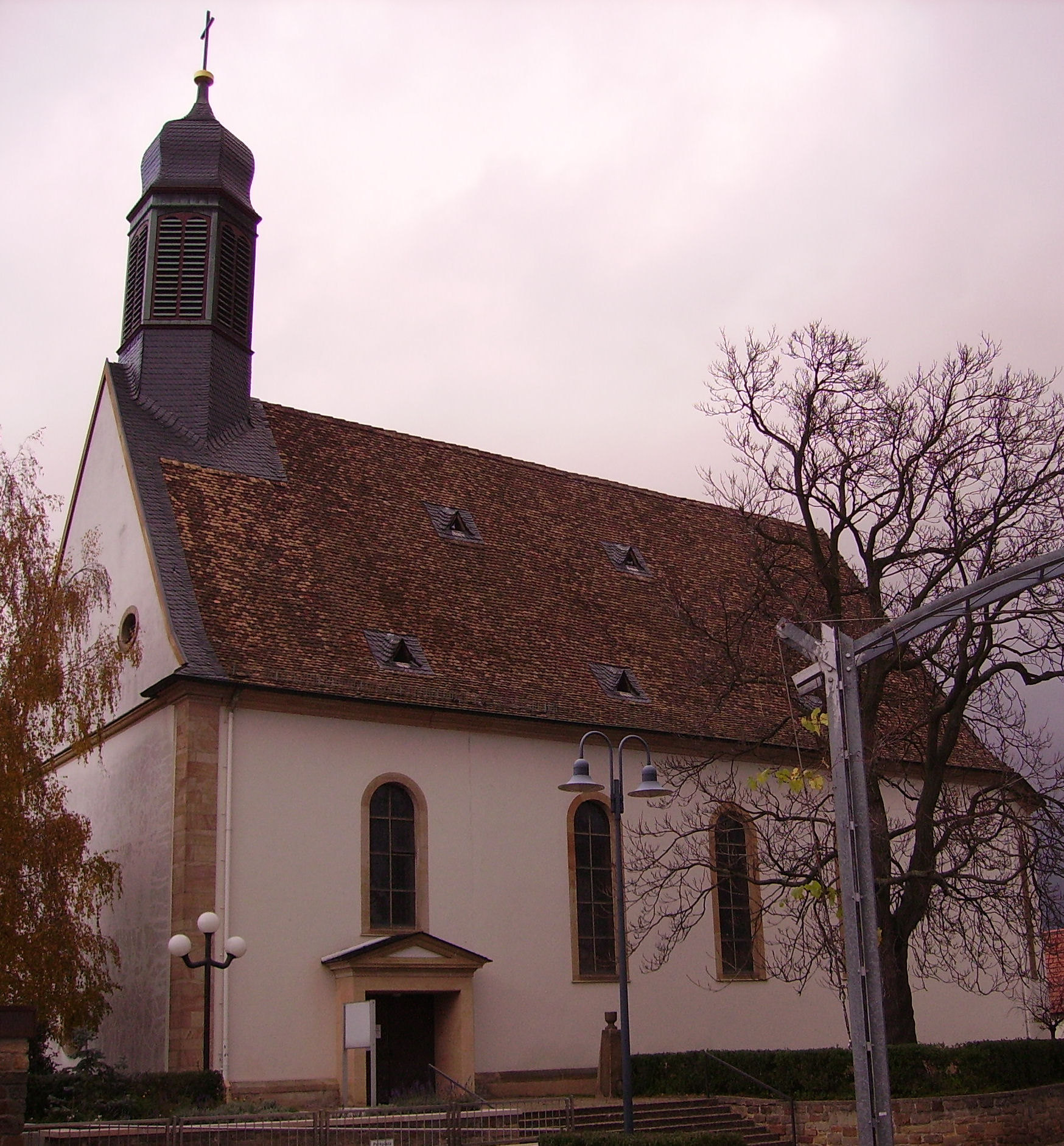 view of Meckenheim (Pfalz), Germany